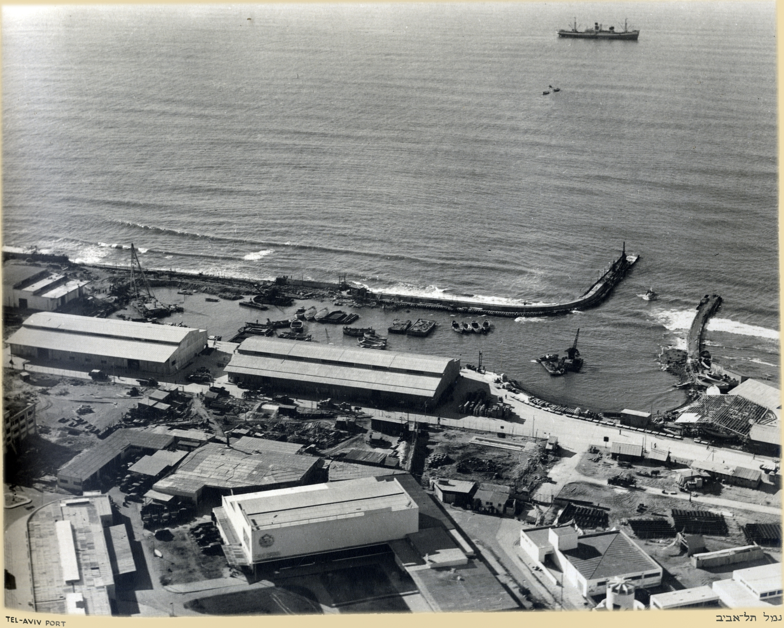 Z. Kluger. Erez Israel from the air - 1937-38